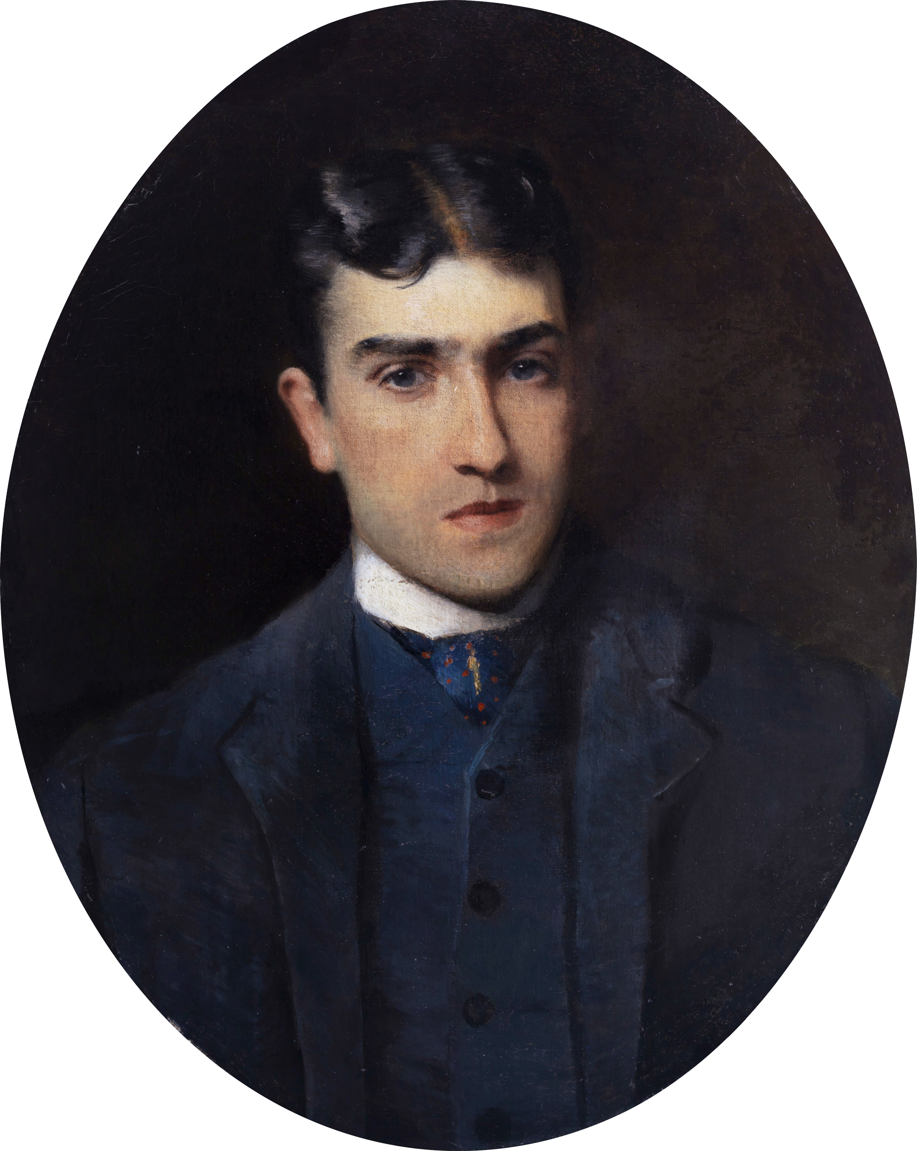 Lucien Guitry oil on canvas 66 x 54 cm Provenance: Formerly in the collection of André Bernard, France (stamp on the frame). Lucien Guitry, born in Paris in 1860, was one of the greatest actors of his time. In 1885 he signed with the famous Mikhailovsky Theatre in St Petersburg. While in the Russian capital he associated with the intellectual elite, becoming close friends with Pyotr Tchaikovsky. Guitry’s son Sacha was born in Russia and was named in honour of Tsar Alexander III.